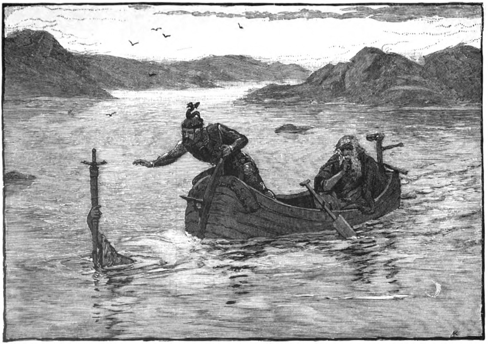 The Lady of the Lake gives Excalibur to King Arthur